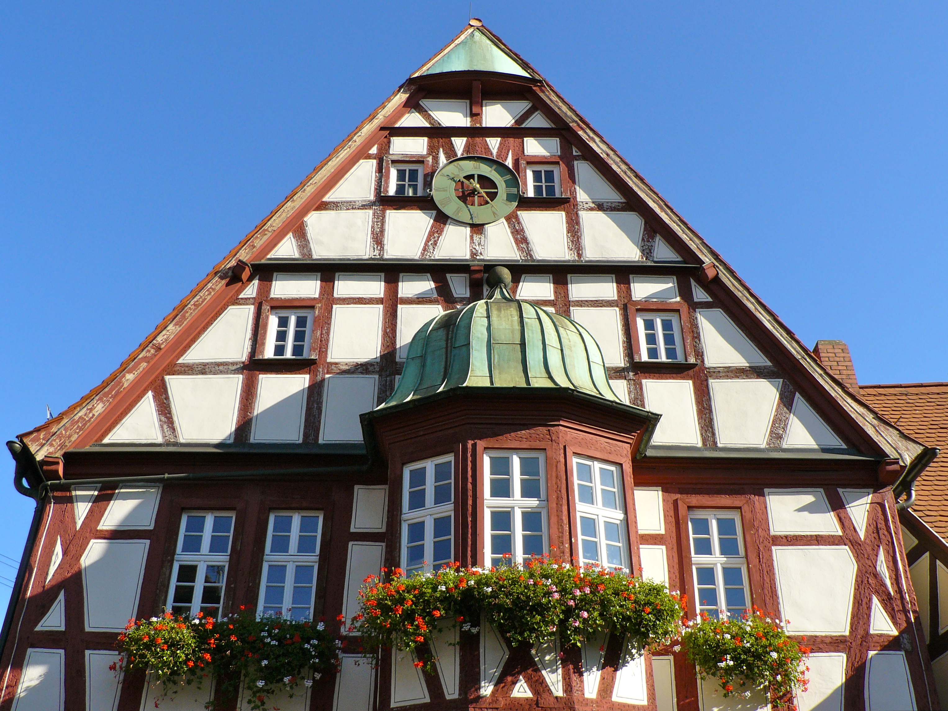 Facade top of old town hall in Seckbach (1542–1900), Frankfurt, Hesse, Germany